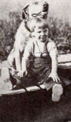 Still from the American comedy short film The Love Egg (1921) with child actor Don Marion and Teddy the Dog, on page 55 of the July 2, 1921 Exhibitors Herald.